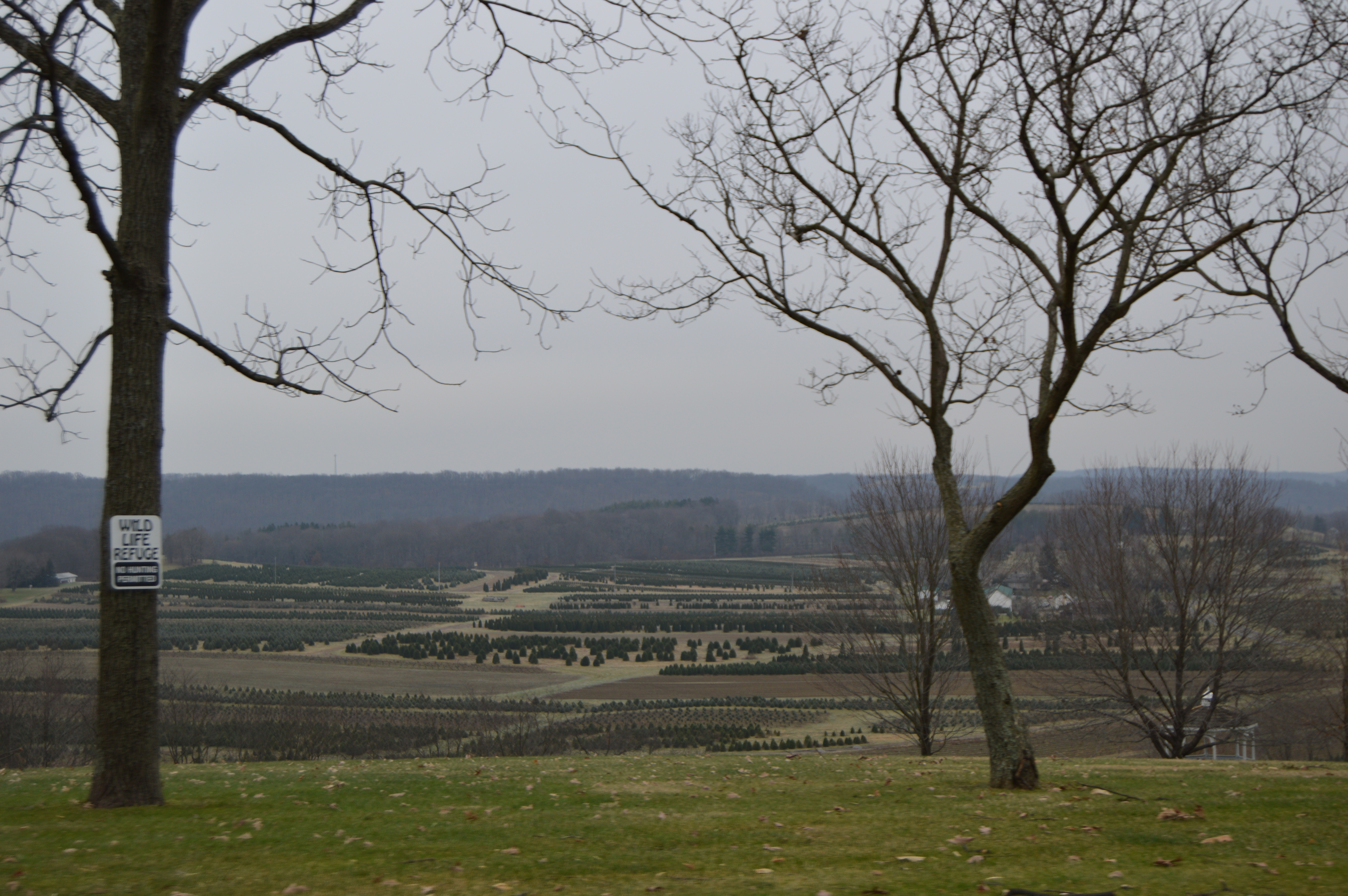 A Christmas tree farm in Marion Township, Beaver County, Pennsylvania, United States. Photo looks east from Chapel Drive just north of the Petrie Road intersection.